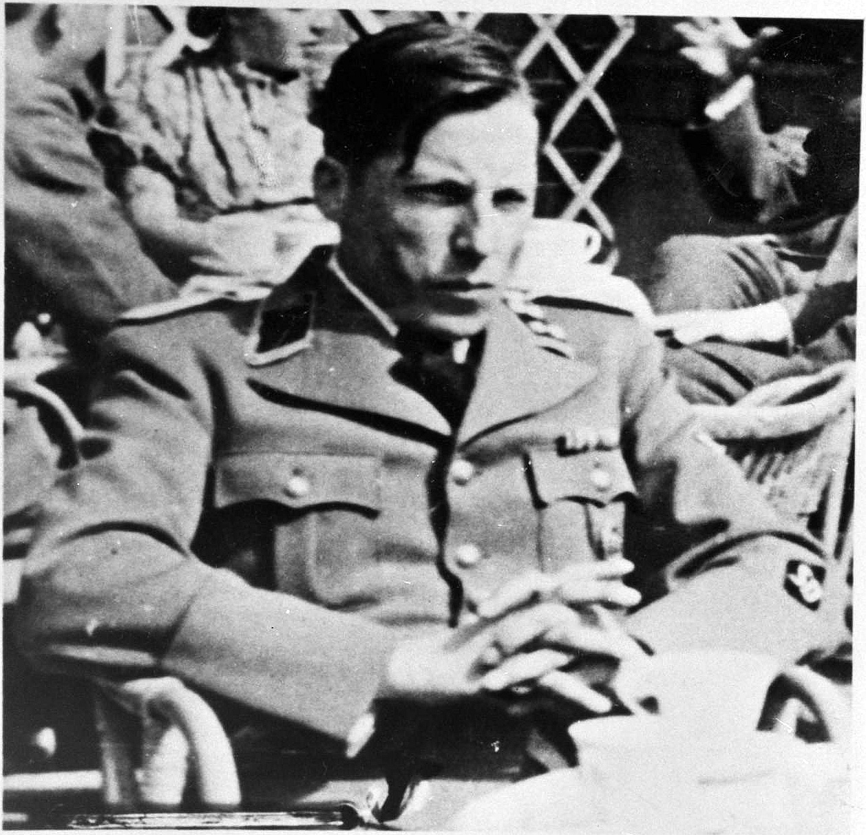 Wilhelm Zoepf a.k.a. Wilhelm Zöpf (1908-1980) was a German Schutzstaffel (SS) Sturmbannführer, a ranking officer of the German Sicherheitspolizei, and a figure in the Holocaust in the Netherlands. He was directly responsible for the deportation of 55.000 Jewish citizens from the Netherlands.